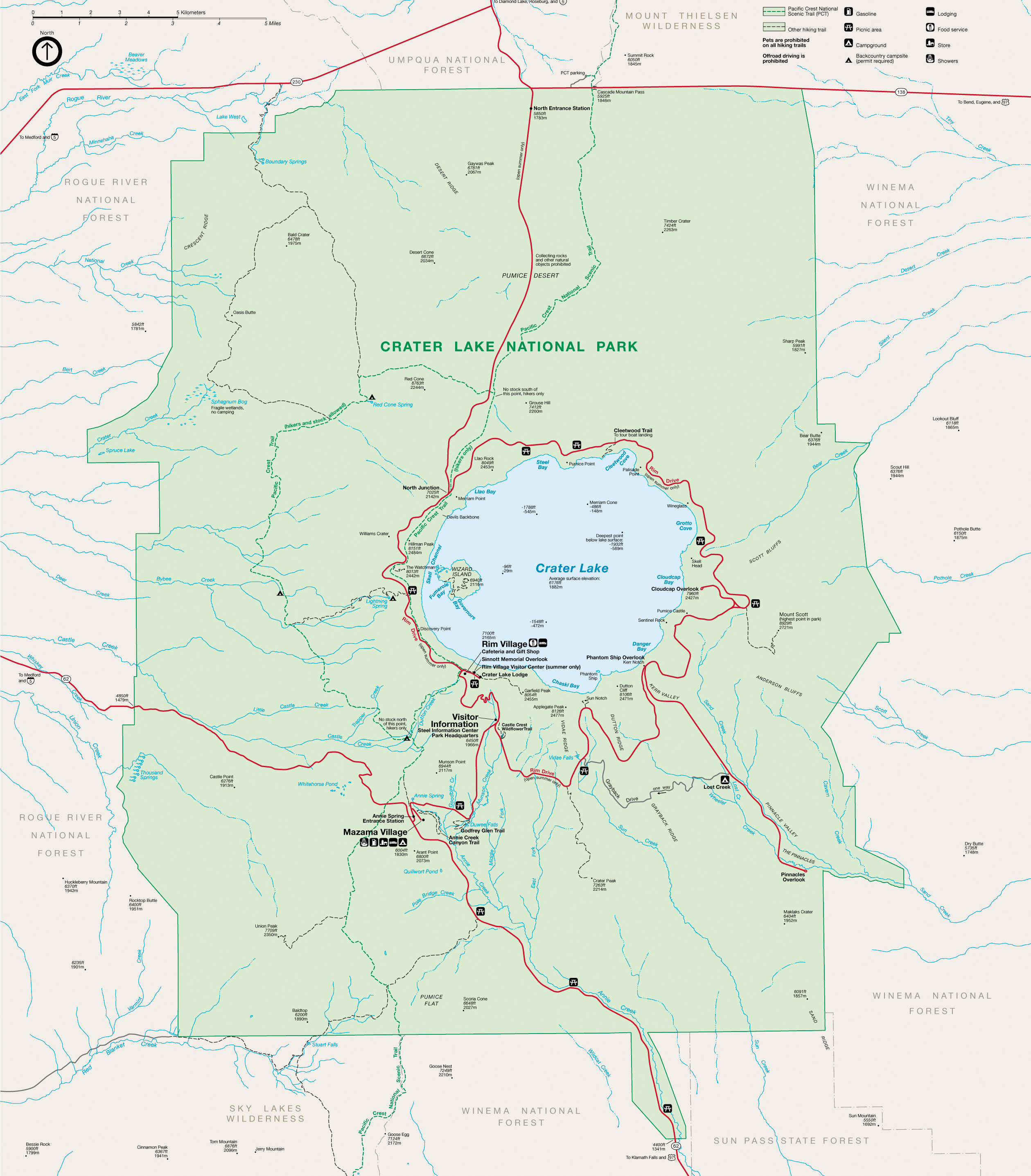 Map of Crater Lake National Park, Oregon, United States.